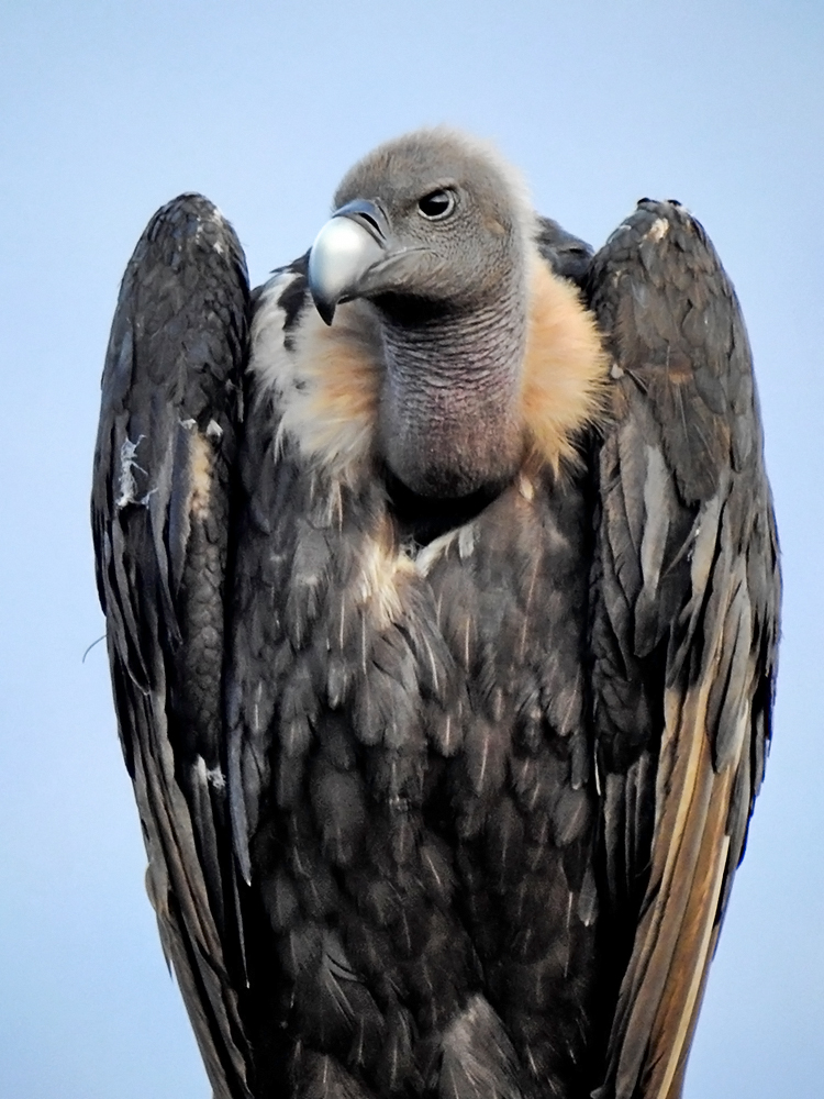 White-rumped vulture (Gyps bengalensis) Photograph by Shantanu Kuveskar Location : Shrivardhan, Raigad, Maharashtra, India